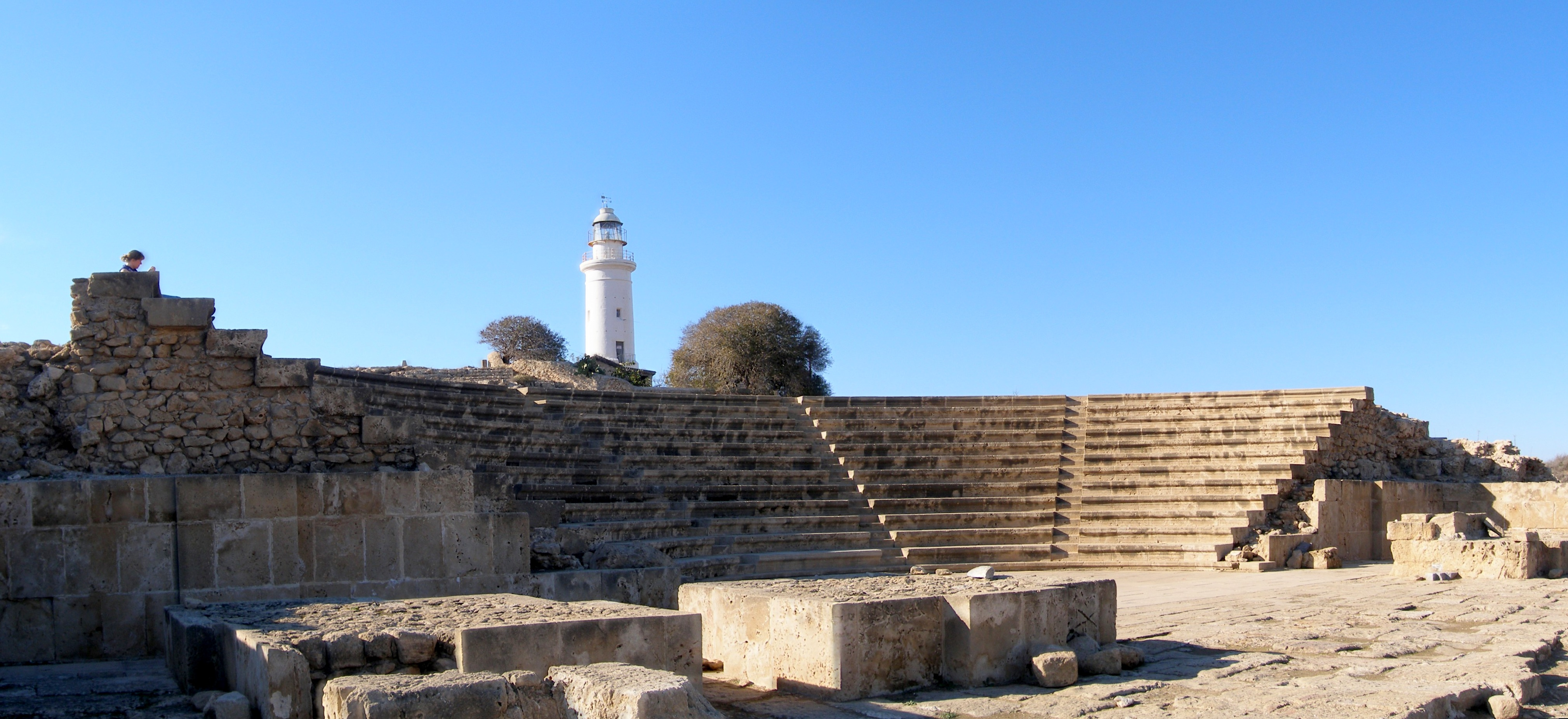 Odeon in Paphos. Built 2nd century AD, with about 1200 seats. Panorama of 3 pictures.